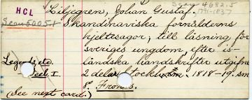 Catalog card used in the Harvard College Library. The classification Scan denotes Scandinavian History & Literature